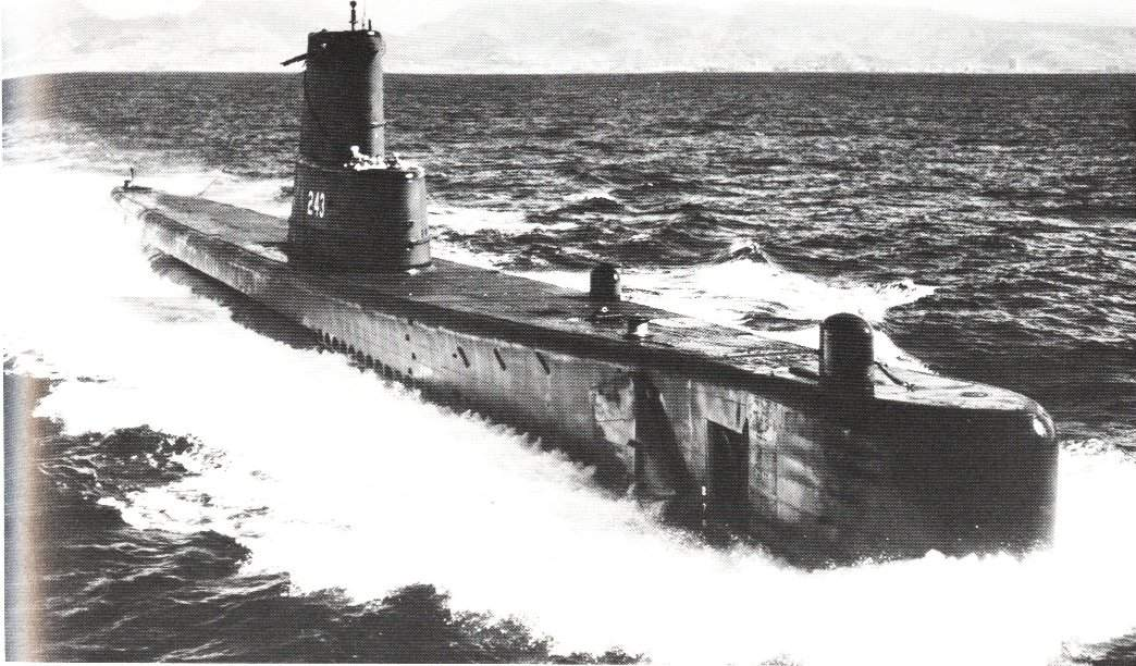 USS_Bream; Bream (SS-243) is seen here on 1 January 1962 off the coast of Hawaii. The fairwater has been streamlined and all guns removed. Also, she has been fitted with an enlarged sonar dome on her bow. USN Archives photo # USN-1039531. Courtesy of The Floating Drydock, Fleet Subs of WW II", by Thomas F. Walkowiak.